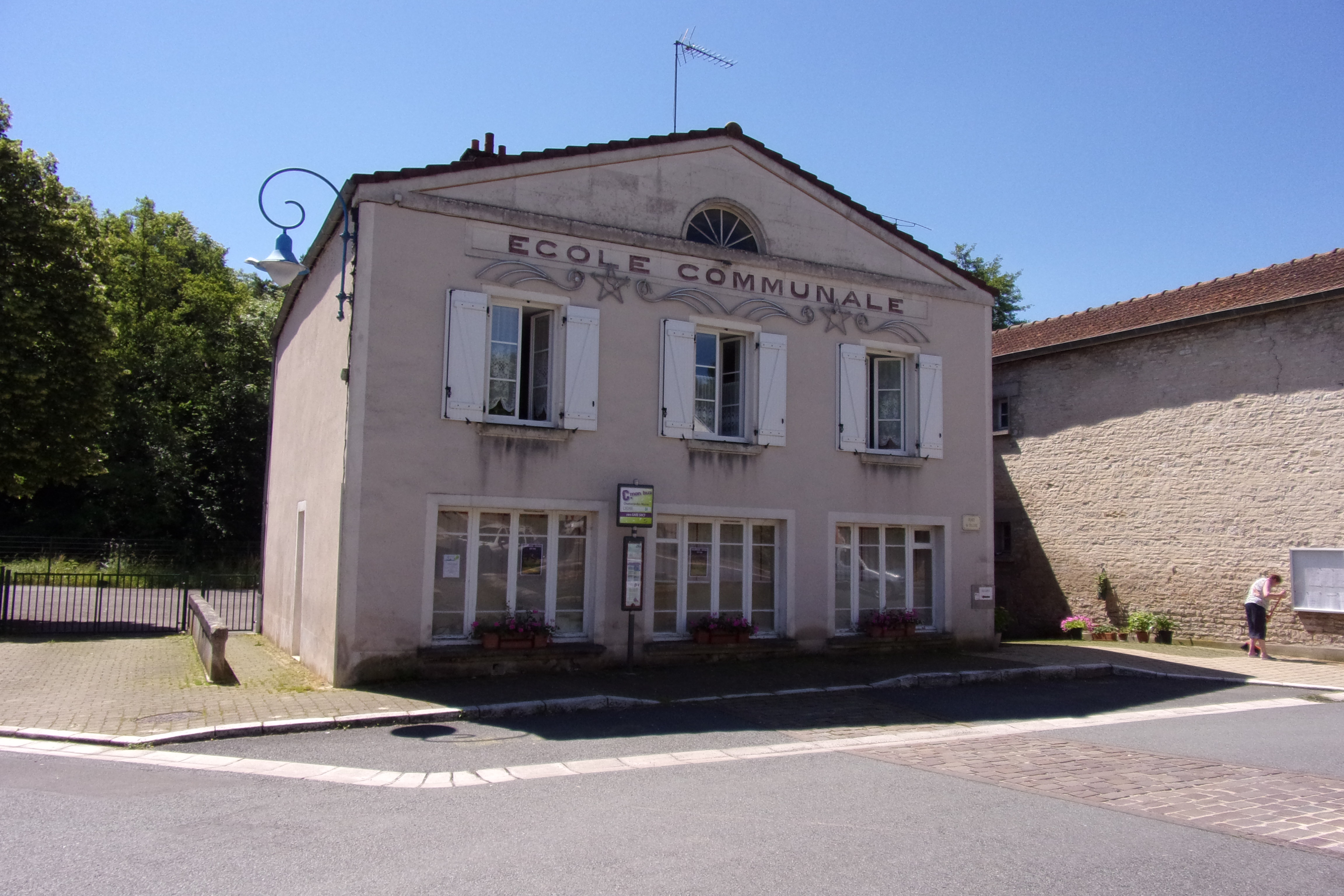 City Hall of Chamarandes (Haute-Marne, France).